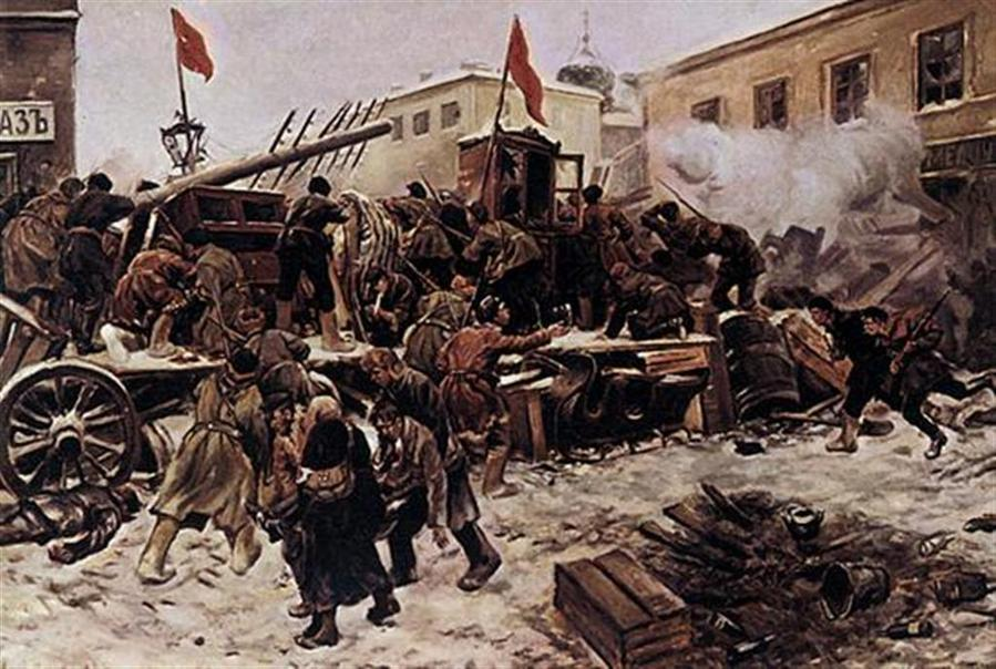 The barricades of Presnya, 1905. Black-and-white photo of a [preparatory sketch?] painting by Ivan Vladimirov (Владимиров, Иван Алексеевич, 1870-1947) depicting the December, 1905 rising in Presnya district of Moscow. Collection of Moscow Museum of Modern History (former Revolution museum). Attribution: [1] (the year 1955 refers to the date on the negative, not the painting. Note the painting is similar but not identical to the photograph, potentially indicating this was a sketch for the same painting.) Description by the Imperial War Museum: Barricades erected by police in Moscow during the Russian Revolution of 1905. The barricades were erected during fierce street fighting with revolutionaries who refused to accept the Tsar's ‘October Manifesto’ of October 1905. The Manifesto permitted the establishment of a constitution, and a legislative Duma, with a Prime Minister. The Soviet rejected this concession and fierce street-fighting took place in Moscow from 22 December 1905 to 1 January 1906.